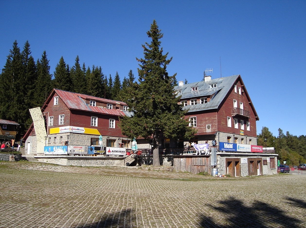 Aleko Chalet on Vitosha Mountain, Bulgaria. Photograph by Nikolay Rainov published in under Creative Commons license 2.5.